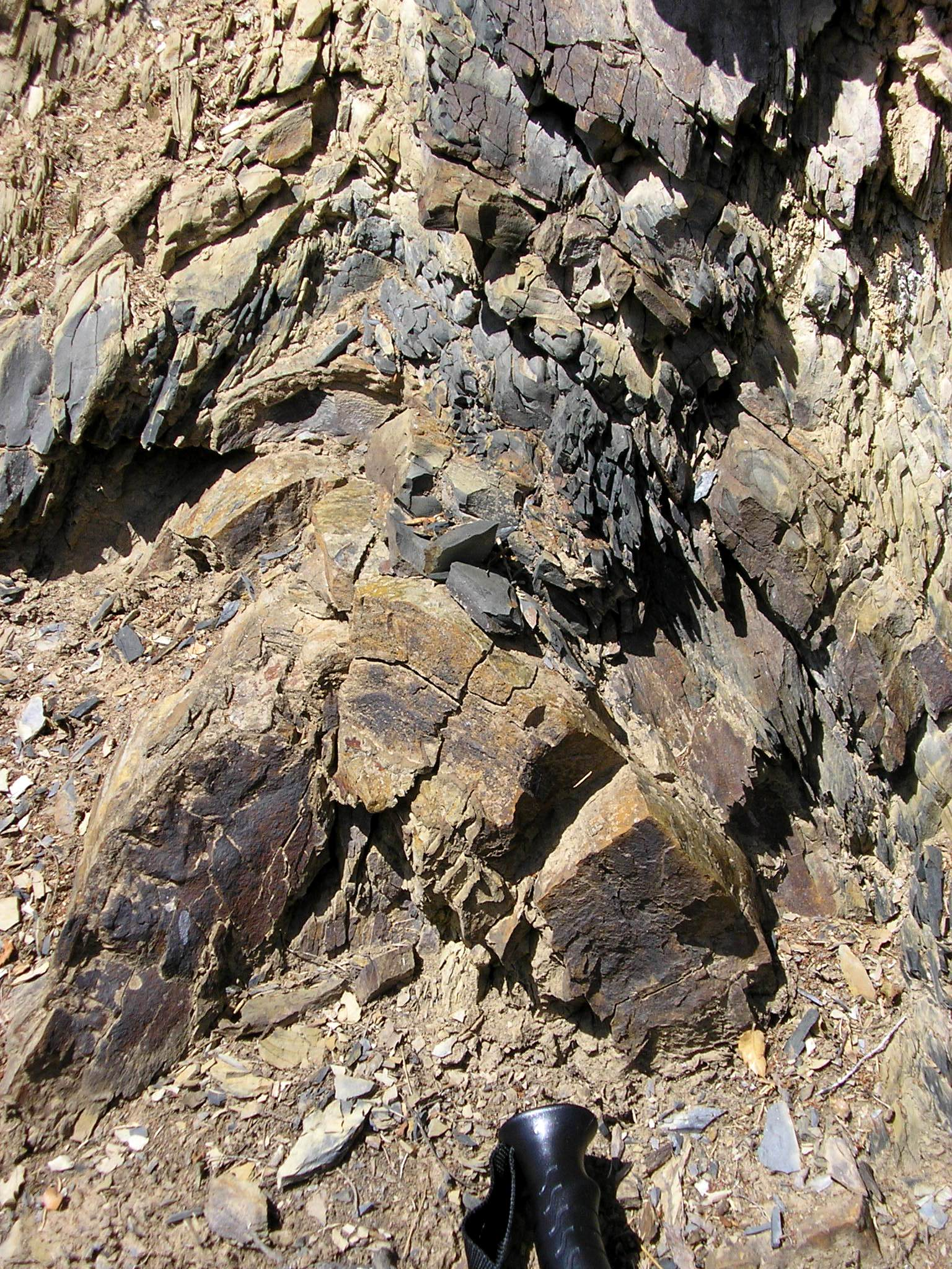 Anticline with well-developed axial planar cleavage. Convergent and divergent fans are also visible as is cleavage refraction on the right-hand limb. Carboniferous sand shale sequence above Tudes, SE of Potes, Cantabria, Spain. Diameter of walking stick handle approx. 4 cm.